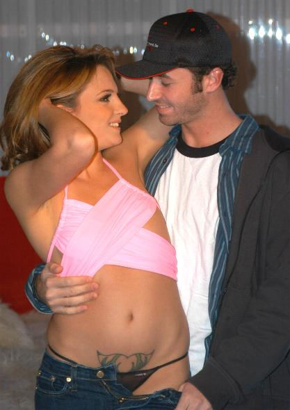 February 28, 2007: Taken on the set of eXXXtra (Egoist Entertainment)